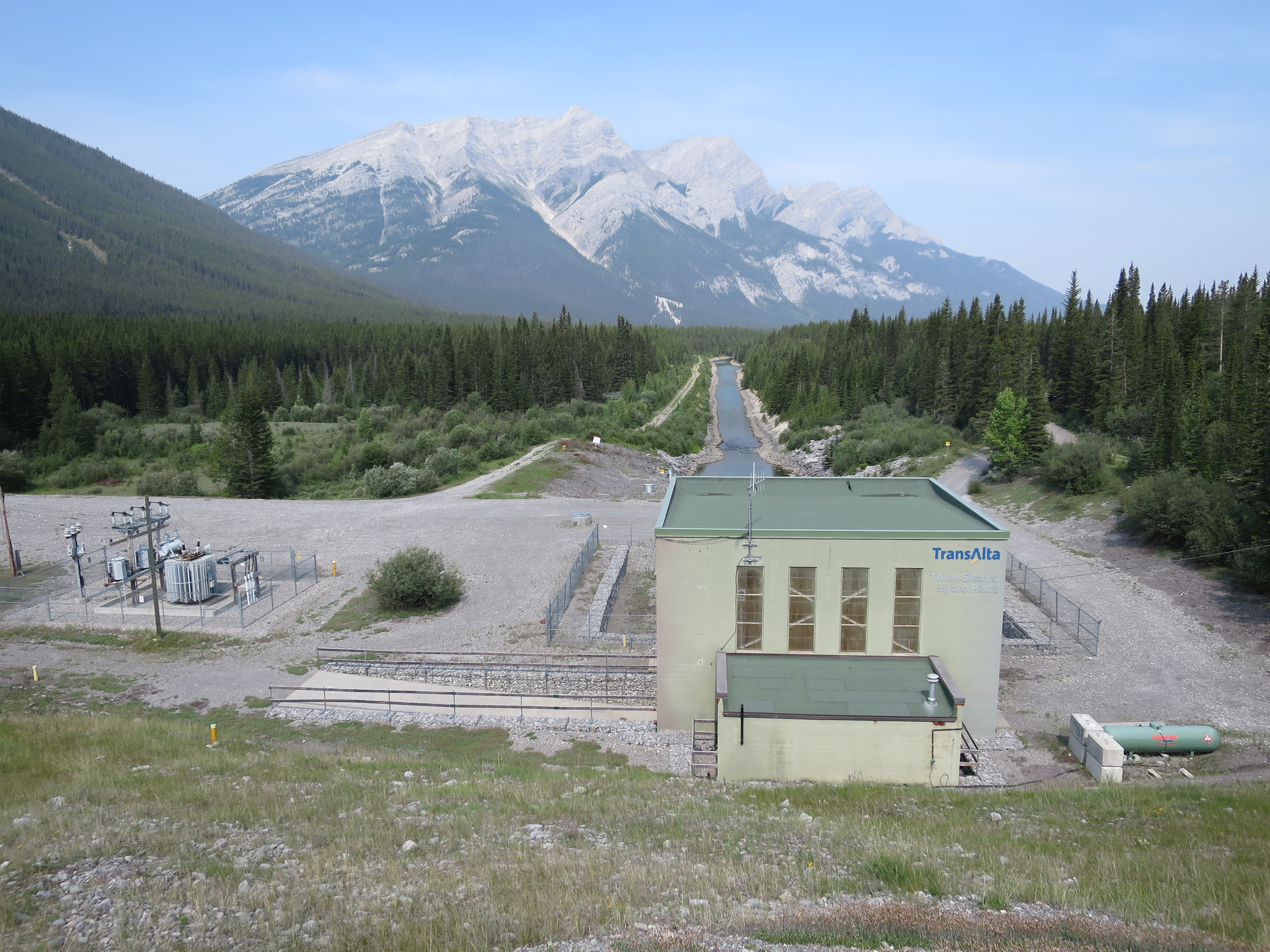 Looking WNW from the Three Sisters Dam (1710m), Smith-Dorrien Trail (Hwy 742), Spray Valley Provincial Park, Kananaskis Country, Southern Alberta, Canada. Foregroundː TransAlta Three Sisters Hydroelectric Plant. Centerː The Spray River (also called Goat Creek) flowing out of the Spray Lakes Reservoir down towards the Goat Pond. Backgroundː The southern end of the northern part of the Goat Range (ca. 2730m).